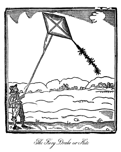 Man flying a kite. The caption „The Fiery Drake or Kite“ is a later addition when the illustration was reprinted in 1801.